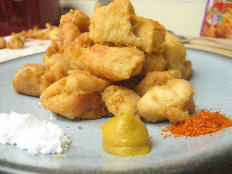 Karaage is one of the Japanese deep fried food